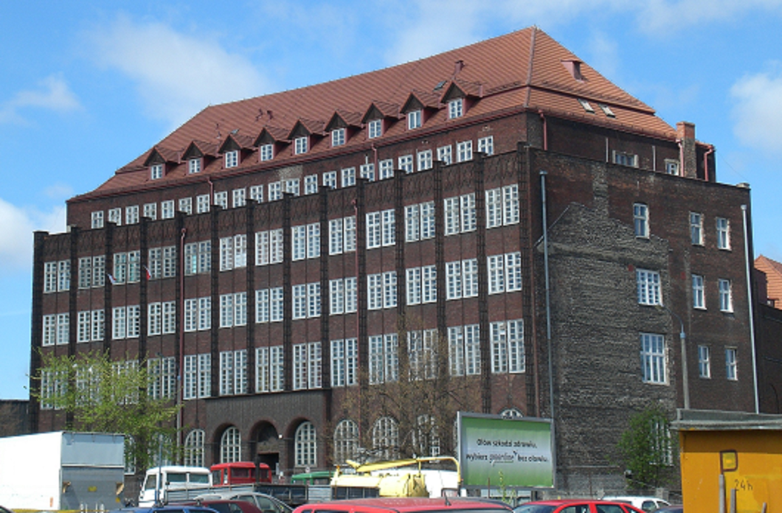 Wałowa Street 27 in Gdańsk